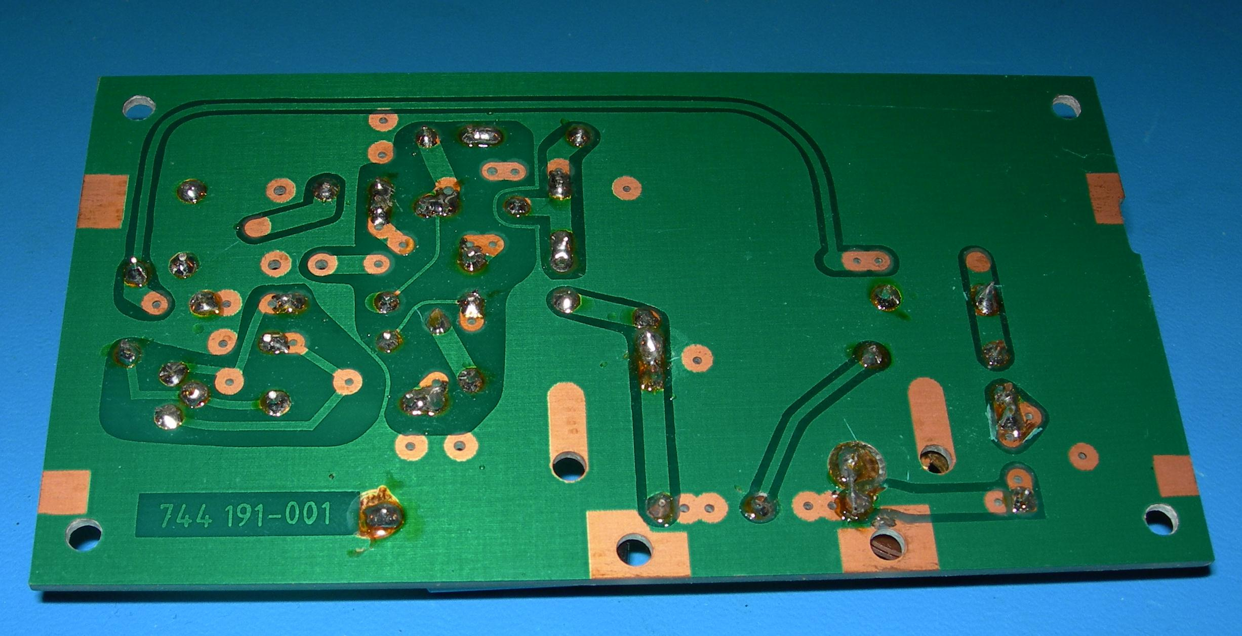 Author: DLKS, own work THT-board Bottom-side